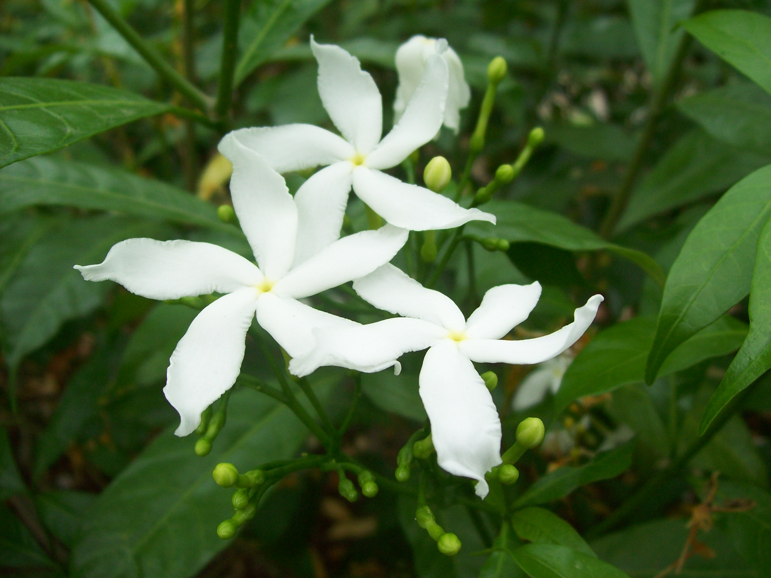 Ervatamia coronaria (Jacq.) Stapf (Apocynaceae) From Taman Putrajaya Flickr photos of Suresh Aru